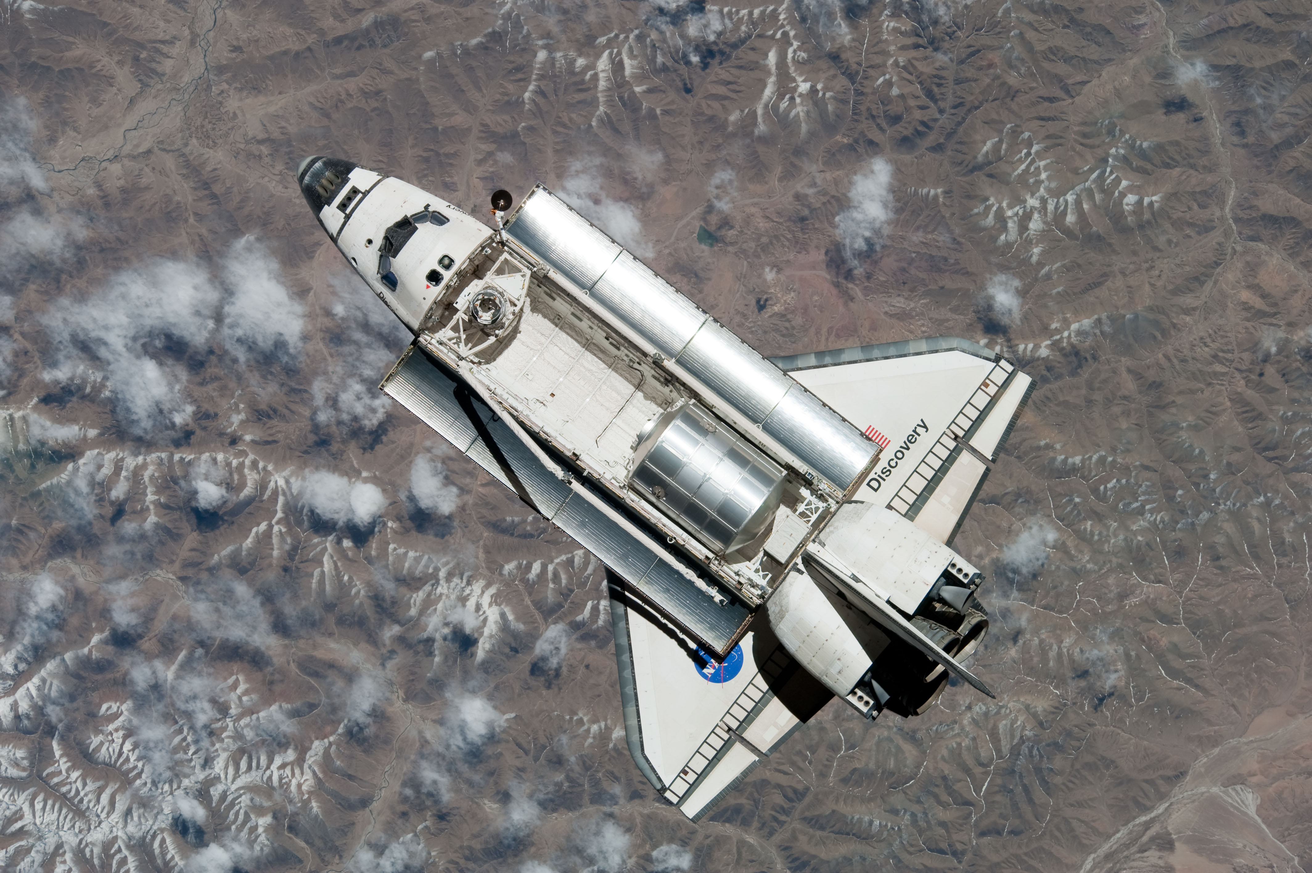 Space shuttle Discovery is featured in this image photographed by an Expedition 23 crew member as the shuttle approaches the International Space Station during STS-131 rendezvous and docking operations. Docking occurred at 2:44 a.m. (CDT) on April 7, 2010. The Leonardo Multi-Purpose Logistics Module is visible in Discovery's cargo bay.